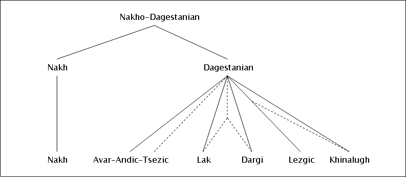 Internal classification of the Northeast Caucasian languages as suggested by Johanna Nichols. Based on information in: NICHOLS, Johanna (2003), "The Nakh-Daghestanian consonant correspondences", in TUITE, Kevin; HOLISKY, Dee Ann, Current trends in Caucasian, East European, and Inner Asian linguistics: Papers in honor of Howard I. Aronson, Amsterdam: Benjamins, pp. 207-251